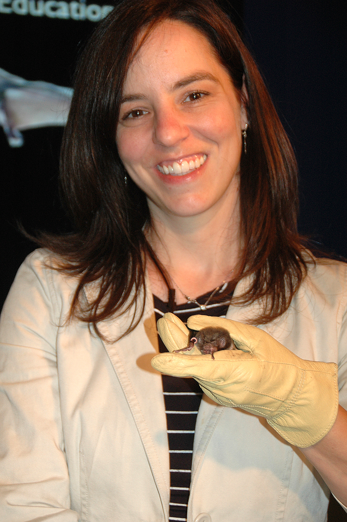 Ann Froschauer (USFWS) with a common vampire bat at the BatsLIVE! Distance Learning Adventure dress rehearsal photo credit: USFS/Sandy Frost